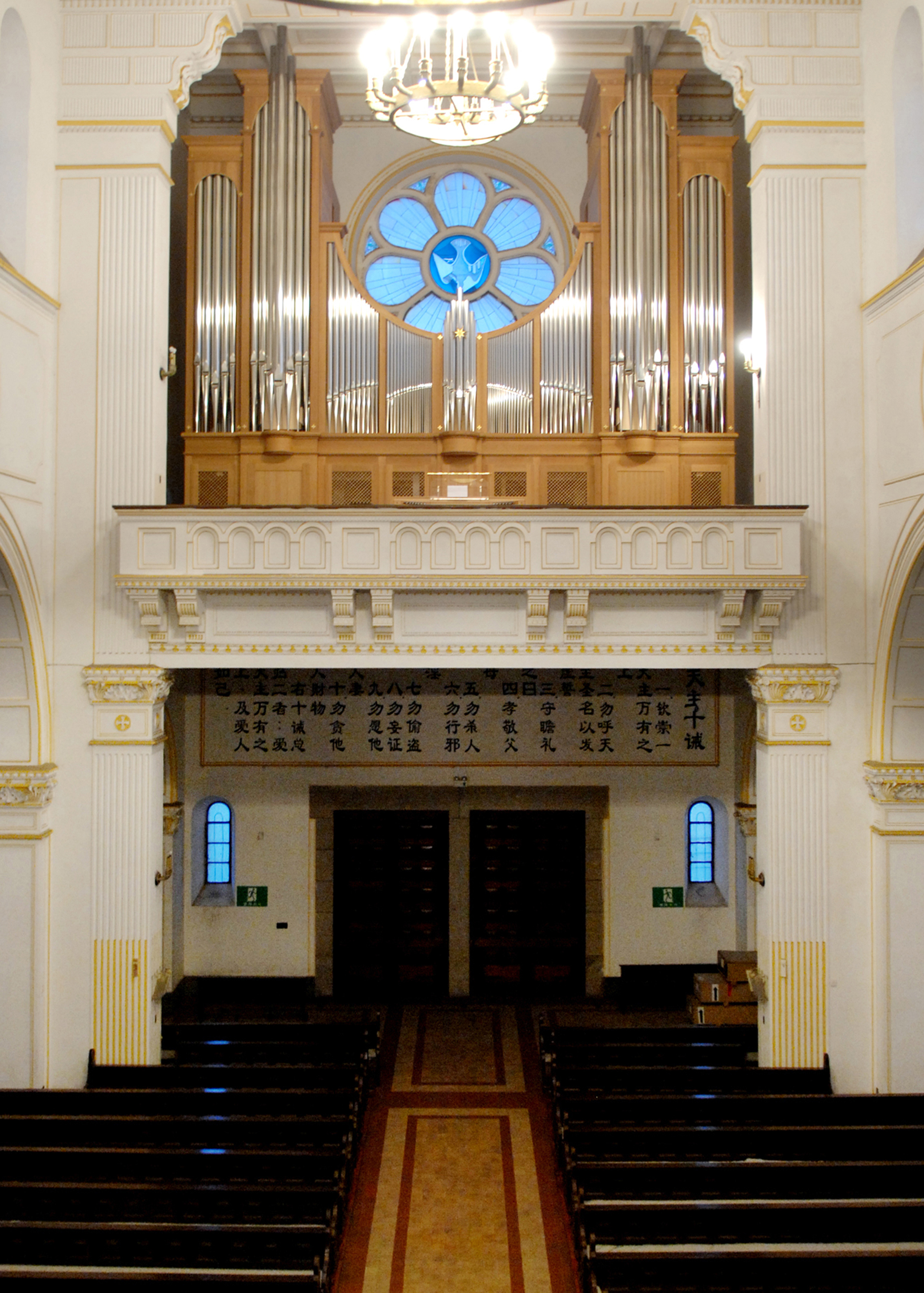 Organ in the Qingdao Cathedral by Waldkircher Orgelbau Jäger & Brommer, 2009